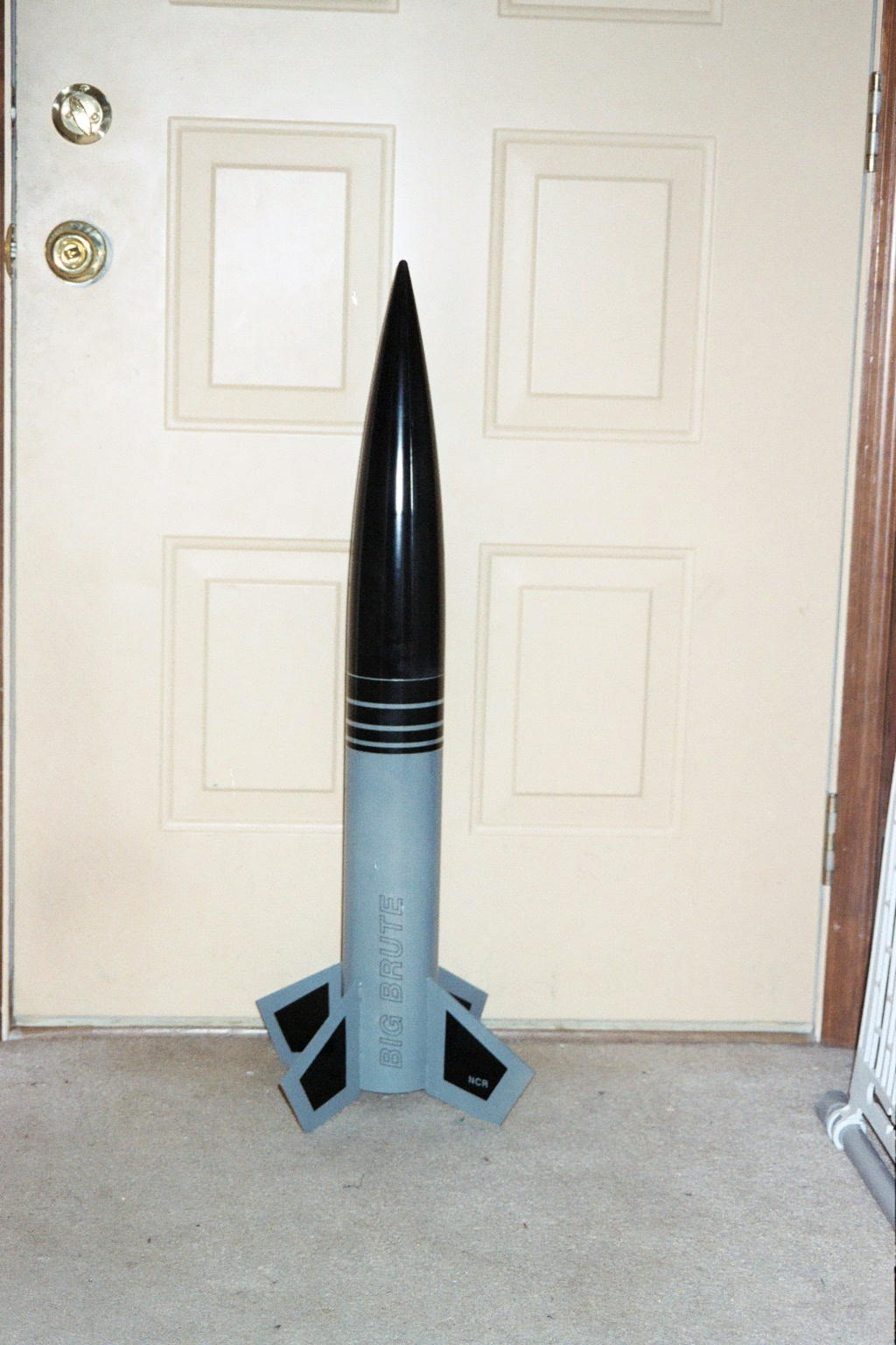 A North Coast Rocketry Big Brute rocket.